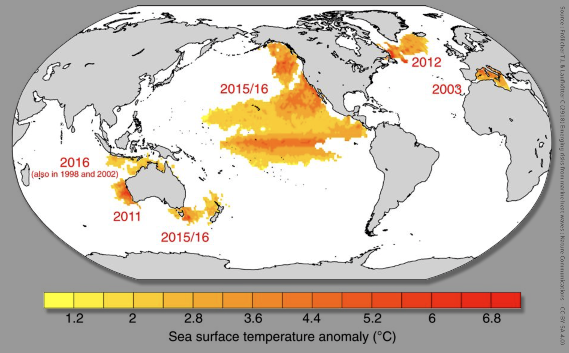 Prominent recent major marine heat waves that are documented and analyzed in the literature. The figure shows the maximum sea surface temperature anomaly in regions where temperature exceeds the 99th percentile using NOAA’s daily Optimum Interpolation sea surface temperature dataset. This picture is made from a map published under CC-BY-SA 4.0 open licence in 'Nature Comments' le 13 février 2018 The red numbers indicate the year of the MHW occurrence. The 99th percentile is calculated over the 1982–2016 reference period. The map was created using the NCAR Command Language (